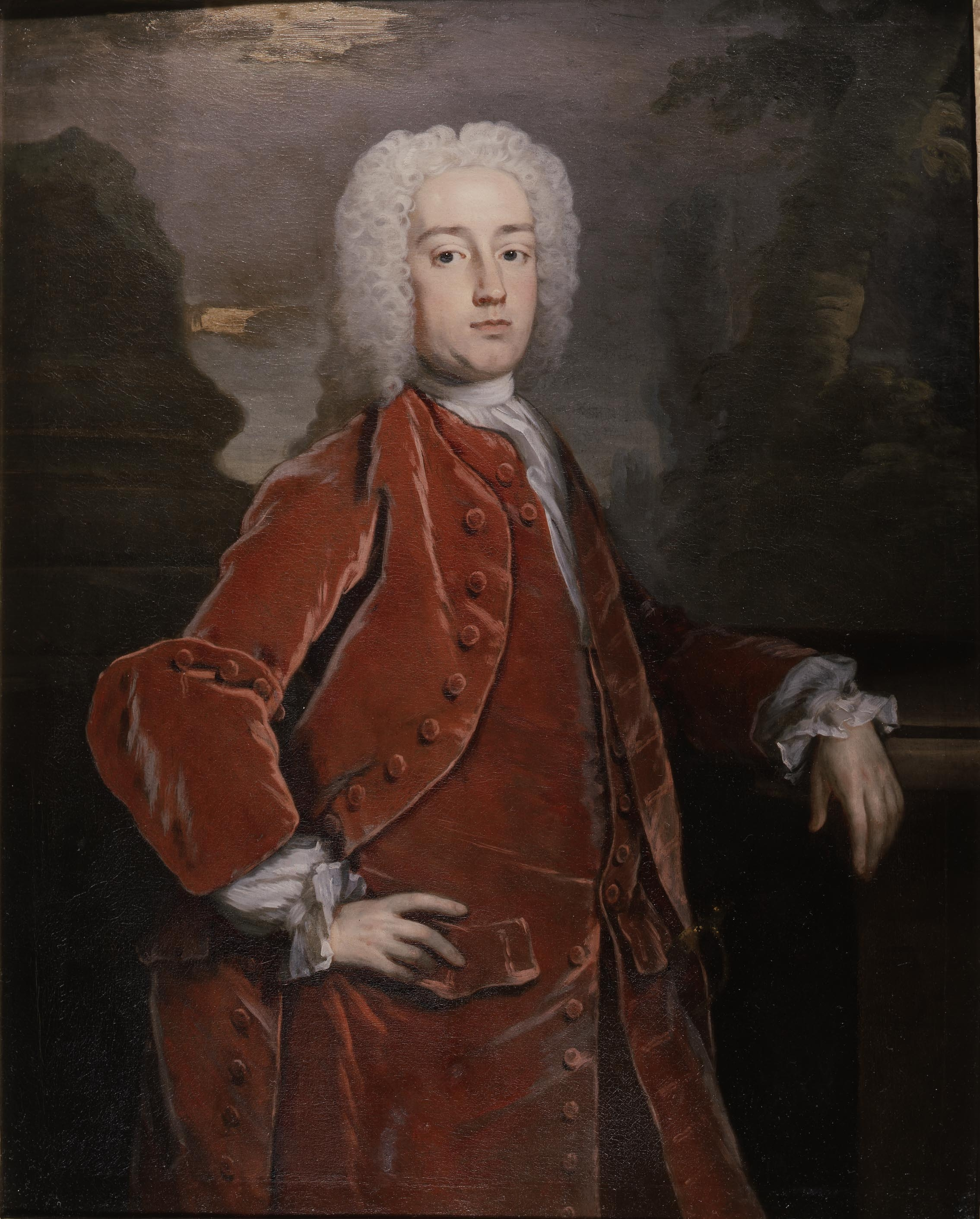 Sir William Norwich, 4th Baronet (1711 - 1741) one of Norwich Baronets